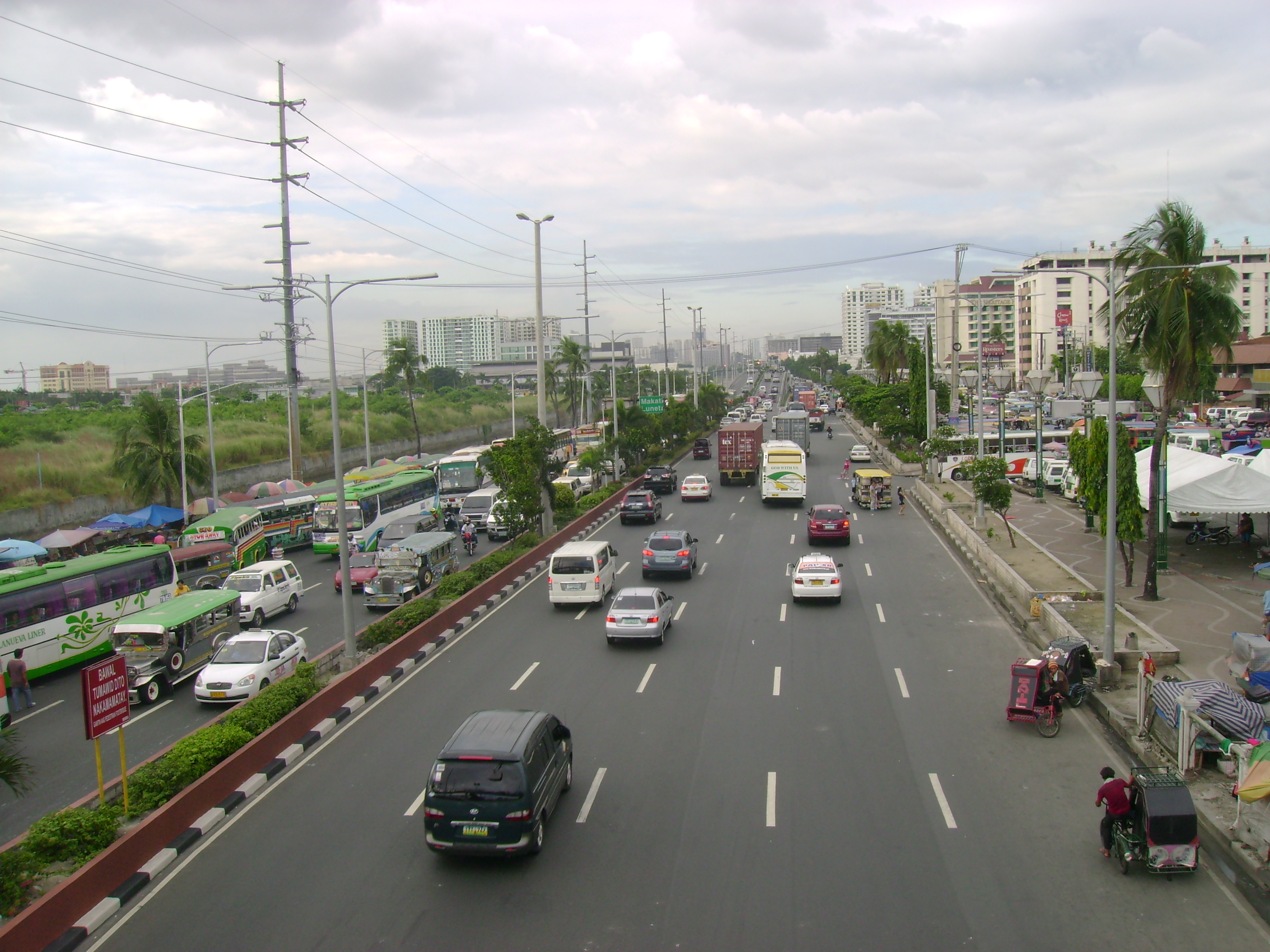 Roxas blvd. in Baclaran